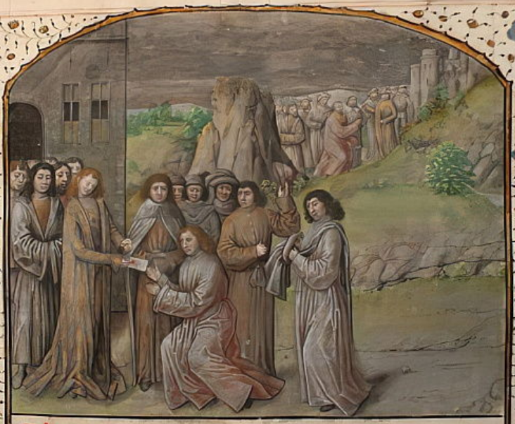 Ms 659 fol.2r Charlemagne Names the First Count of Flanders